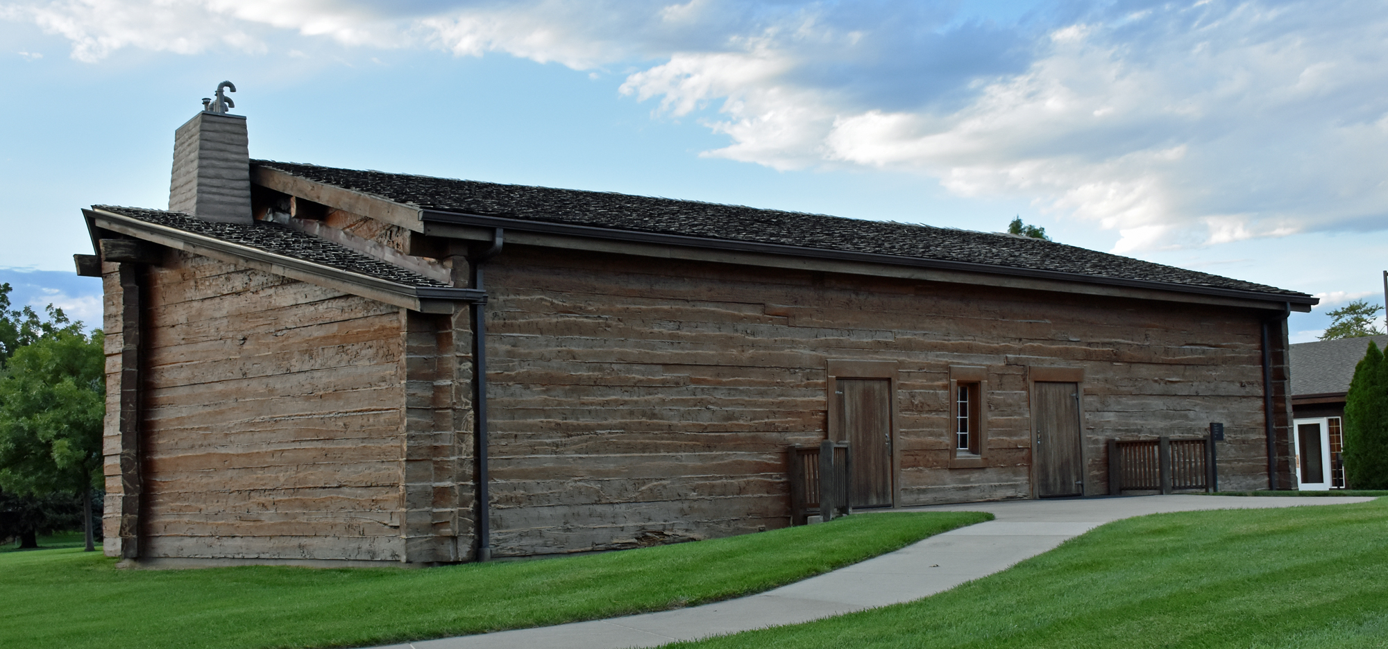 View of the reconstructed Kanesville Tabernacle in Council Bluffs, Iowa, United States. This is the front side which faces south-east towards Broadway street.